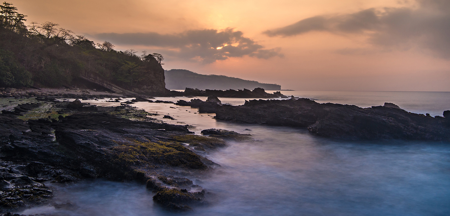 Karang Taraje is a wonderful beach in Sawarna Tourist Village, Bayah, Lebak, Banten.